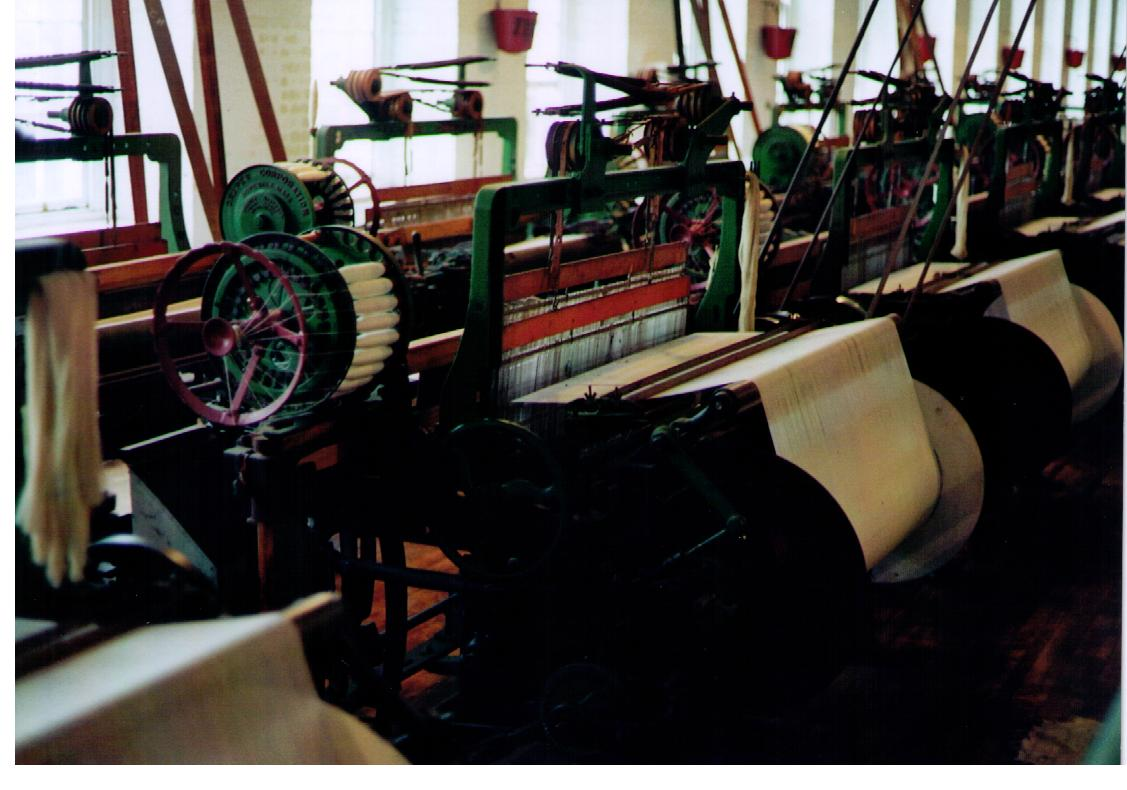 Weaving machine (Brandname Draper) in The American Textile Museum (Lowell, Mass. USA) - Be careful! The title of this image is not correct!